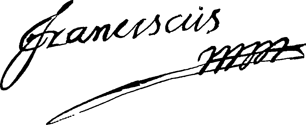 Signature of Ferenc Barkóczy, archbishop of Esztergom.